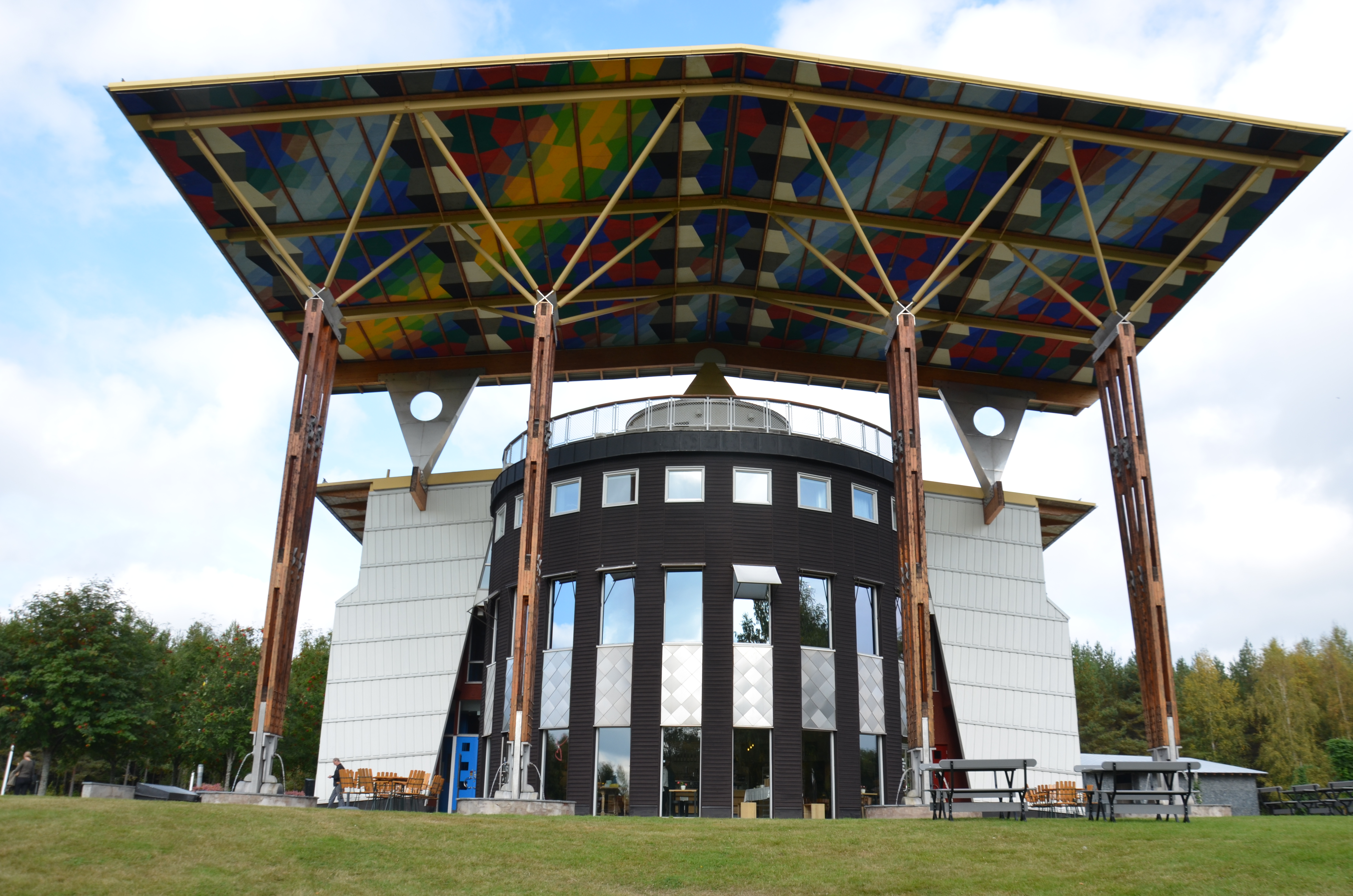 Måltidens hus